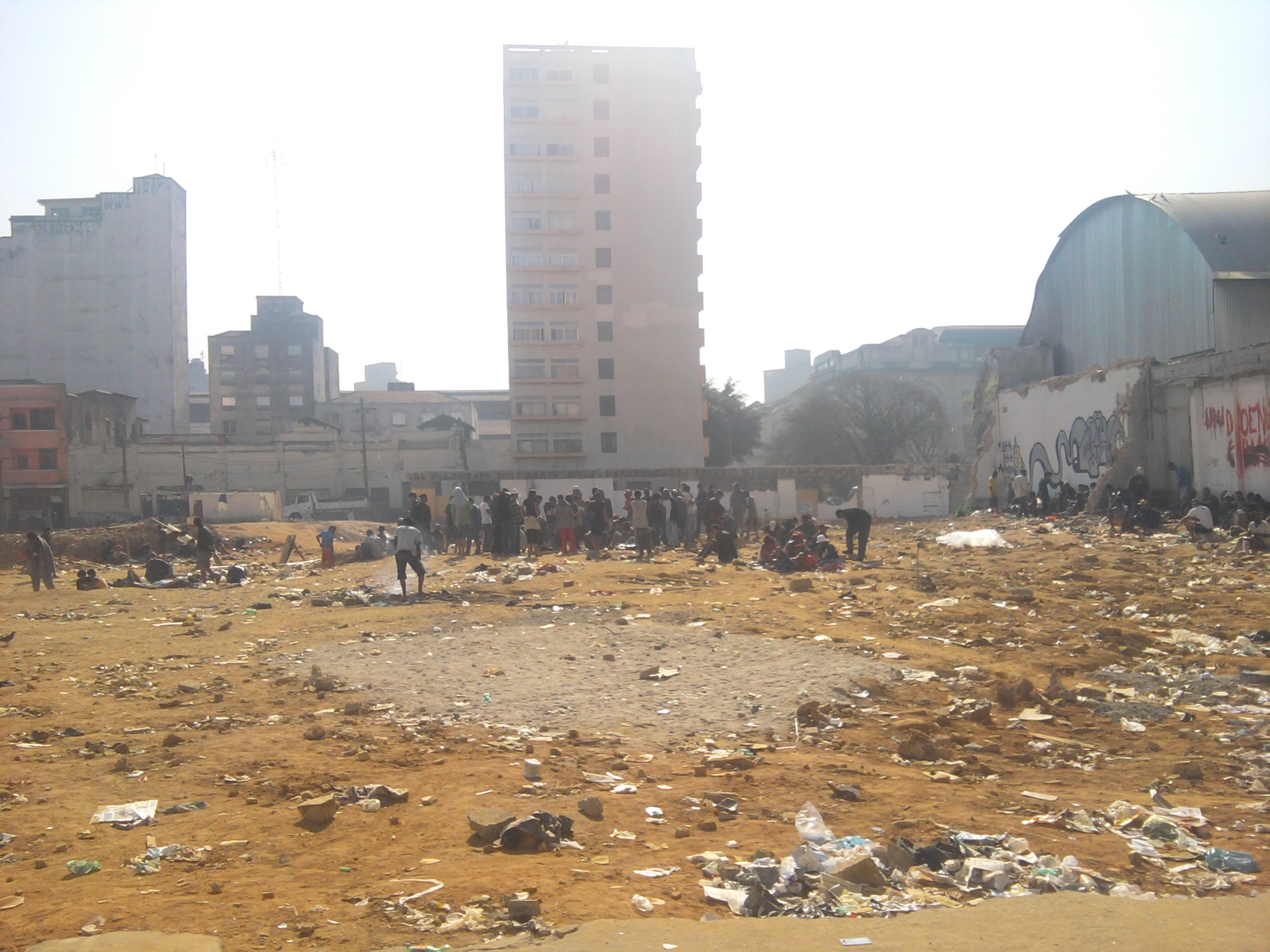 Photo taken in downtown Sao Paulo region of the "land of crack".